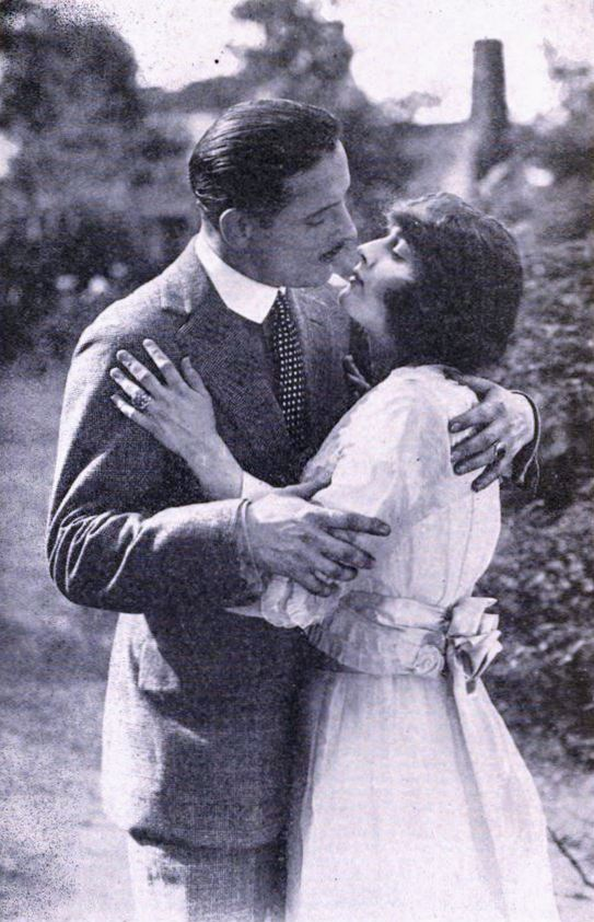 Still from the American mystery film The Teeth of the Tiger (1919) with David Powell and Marguerite Courtot, from the front piece of the Leblanc novel.